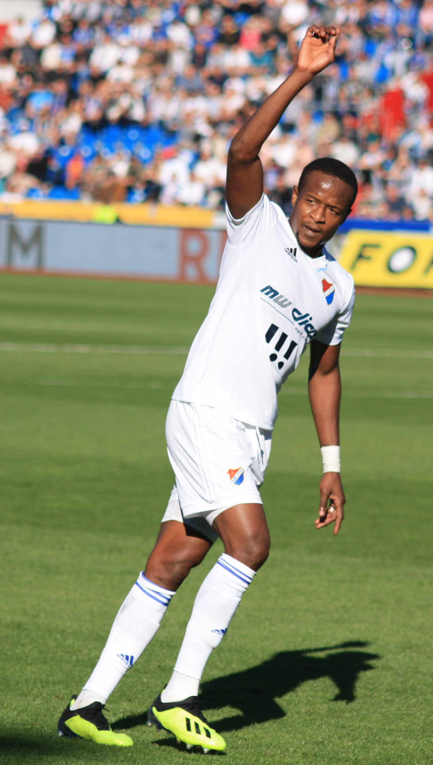 Dame Diop At Czech First League (Fortuna Liga) match FC Baník Ostrava